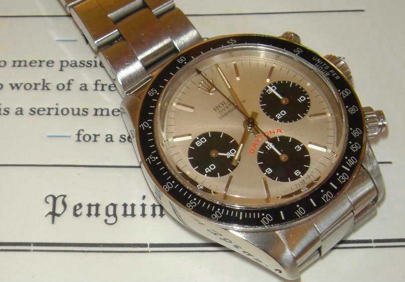 Rolex Daytona in Stainless Steel, Cosmograph 6263., The last references with hand-wound movements were 6263 and 6265, which were produced from 1971 to 1988